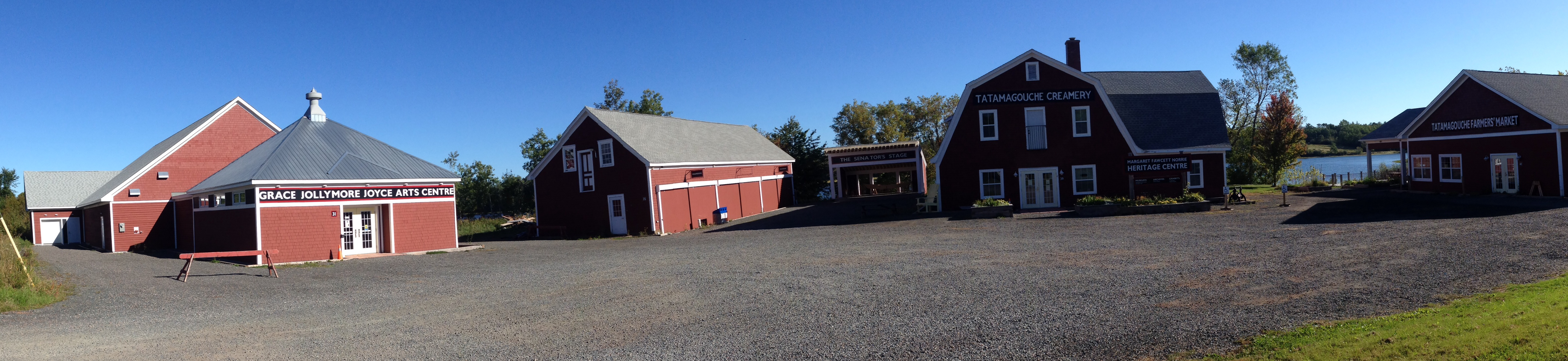 Panoramic view of Creamery Square